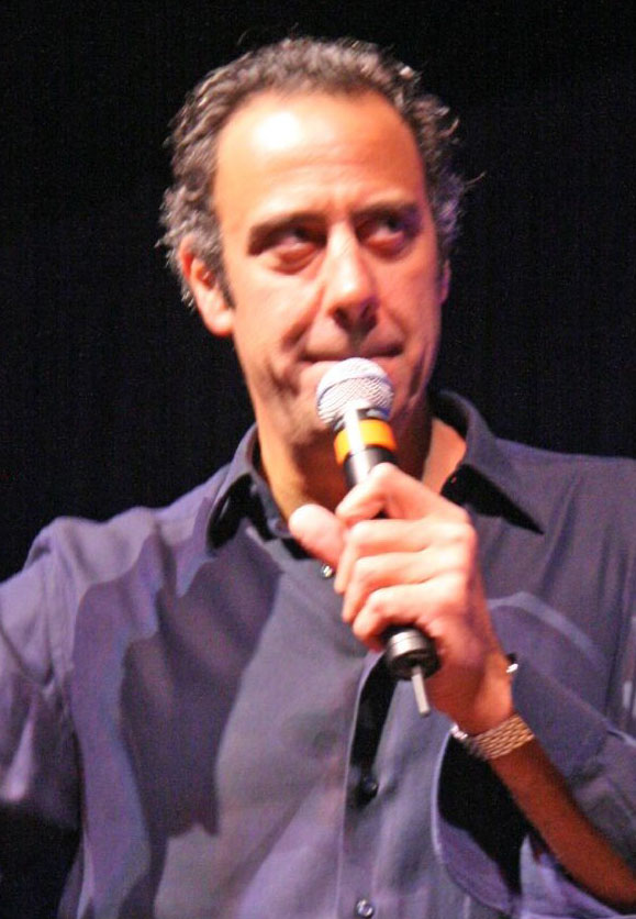 Brad Garrett at the "make a wish wine auction" :Photo cropped by Magnus Manske 15:43, 30 September 2007 (UTC)